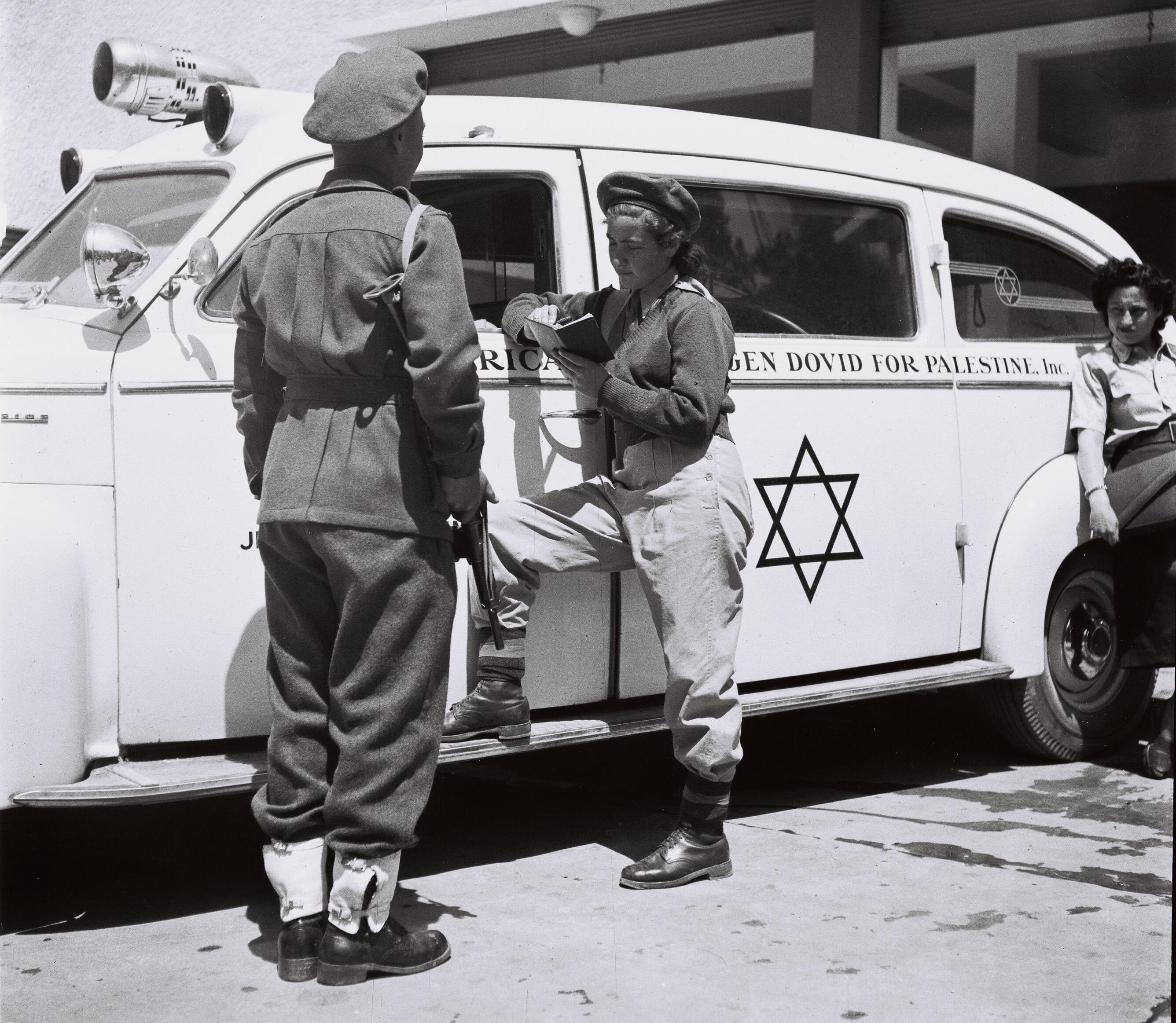 Ambulance of the Magen David Adom during the Israeli war of independence